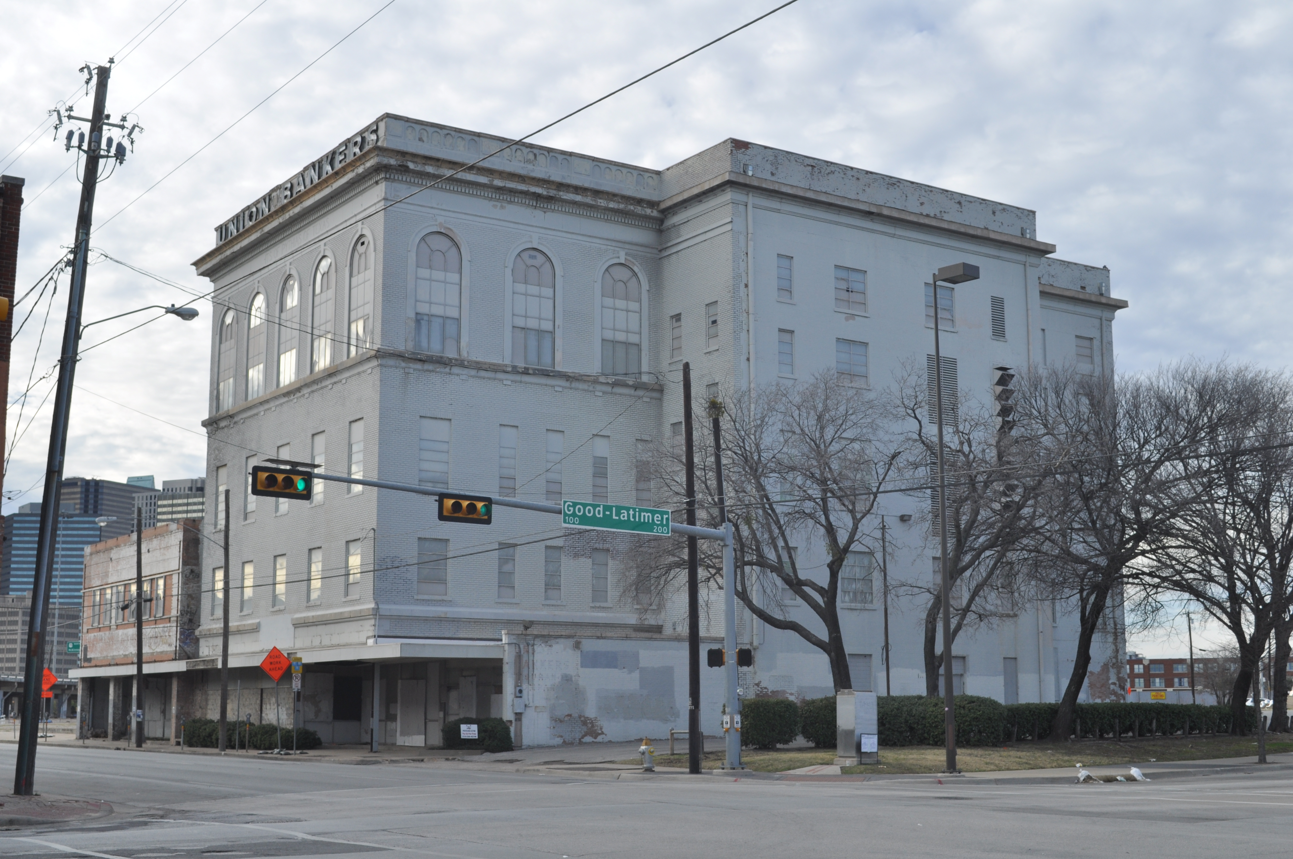 The Union Bankers Building, originally Knights of Pythias Temple, 2551 Elm Street Street, Deep Ellum, Dallas, Texas, U.S.A. Designed by William Sidney Pittman, Dallas's first African-American architect.